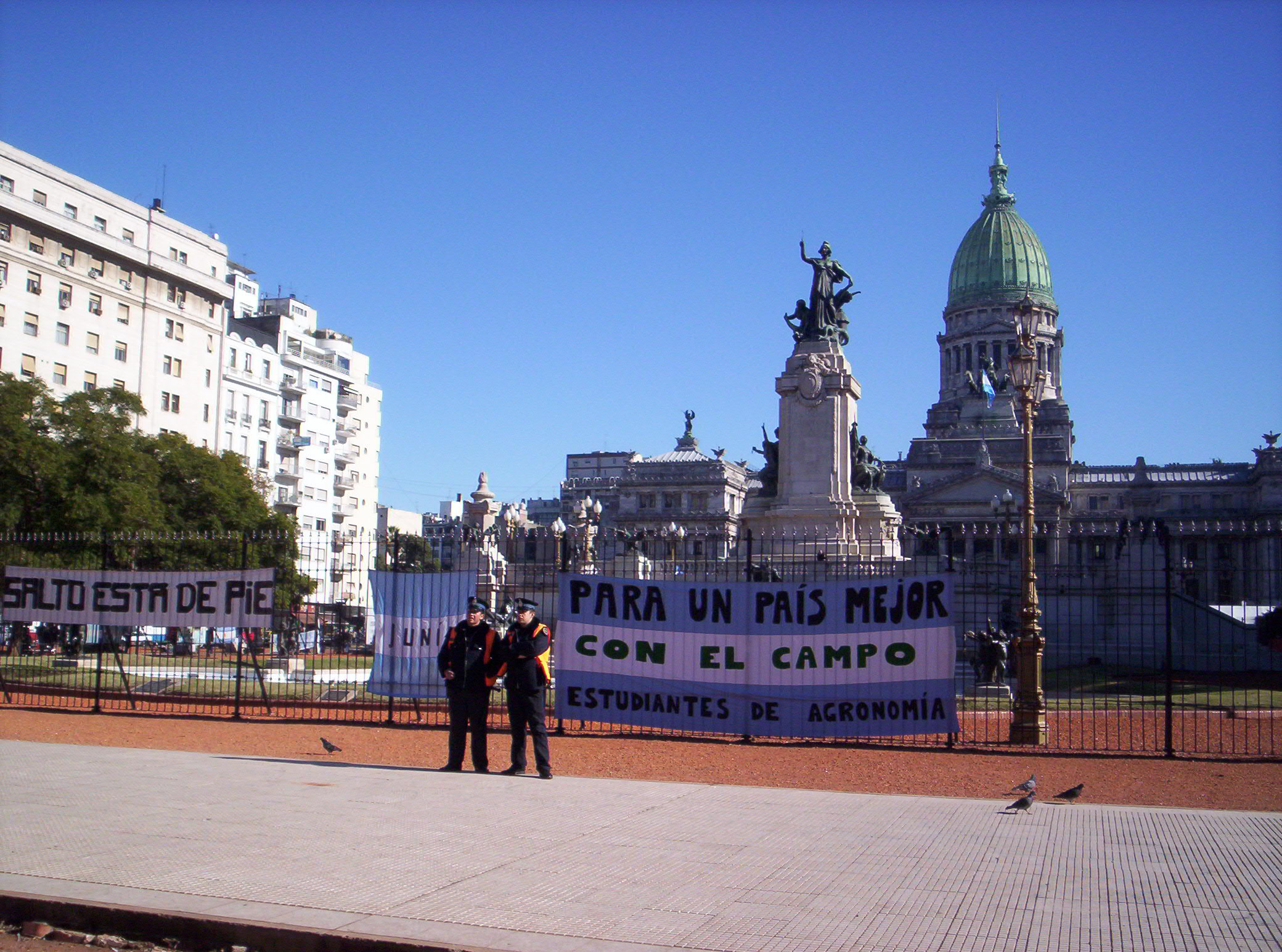 Policeman guard the Plaza Congreso during the lockout in Argentina, 2008